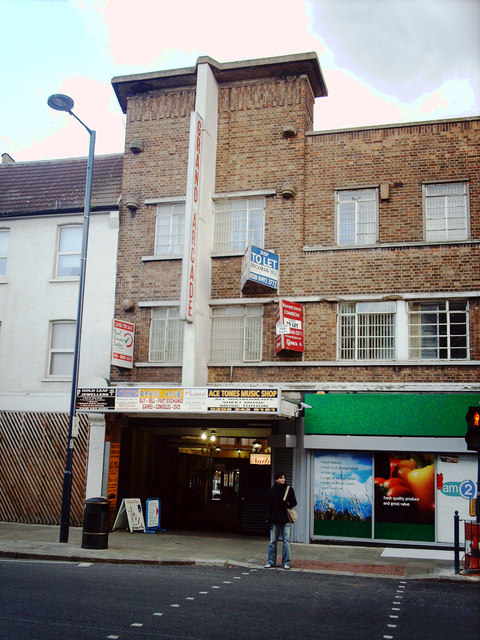 The Grand Arcade. The Grand Arcade - North Finchley. Sadly, any grandness has long gone.